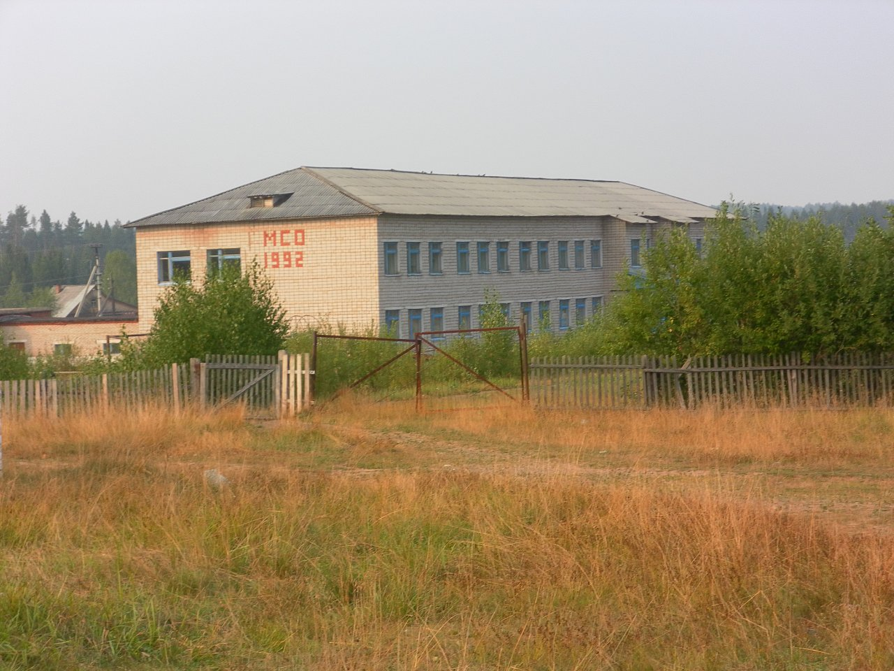 kabalood_school